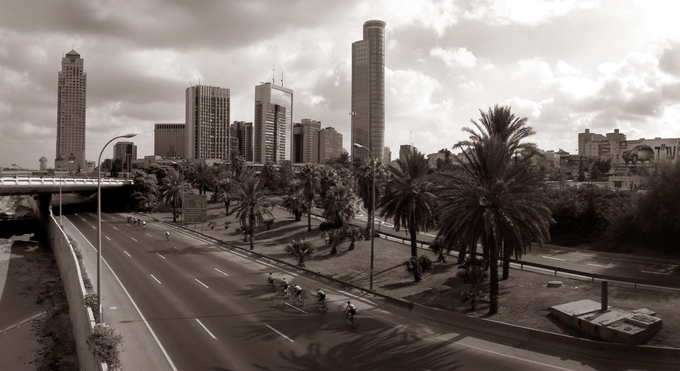 Yom Kippur on Highway 20 ("Netivey Ayalon"), Tel-Aviv - Ramat-Gan